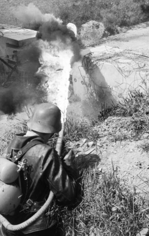 German soldier with Flammenwerfer 41